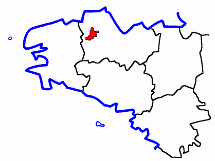 Description: Map for localisazion of cantons of Bretagne region in France Source: made by Hervé Tigier from another large map (published in 1990)